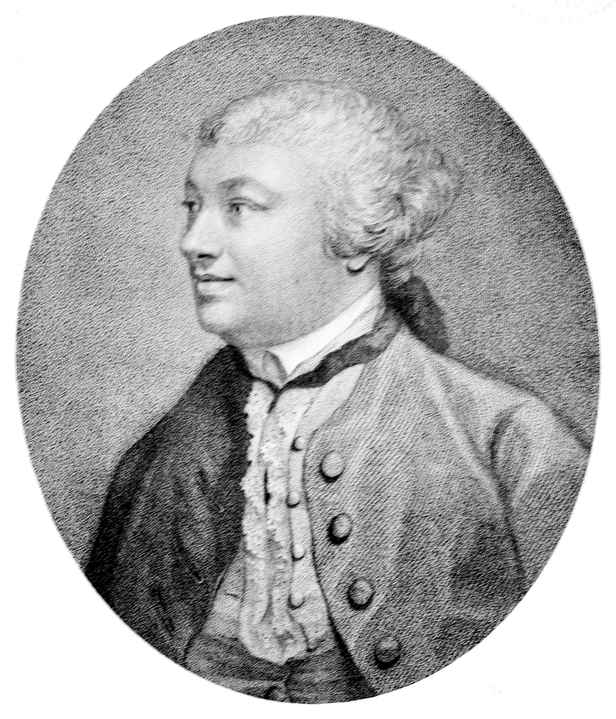 Plate 10 from Makers of British botany (1913), depicting John Hill (1716–1775)